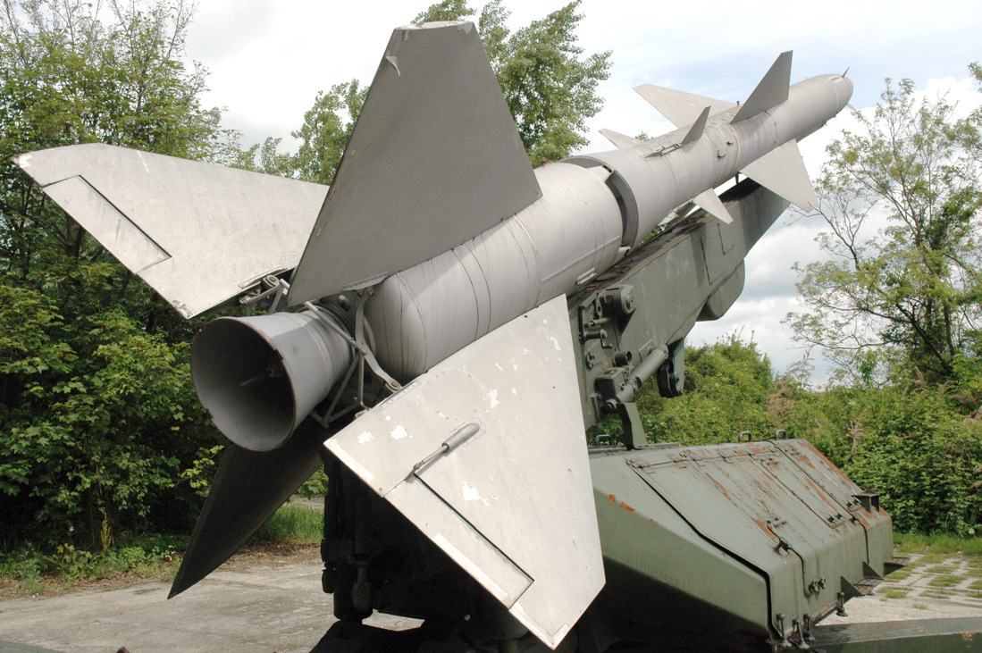 Rear view of V-750 surface-to-air missile (S-75 Dvina system).